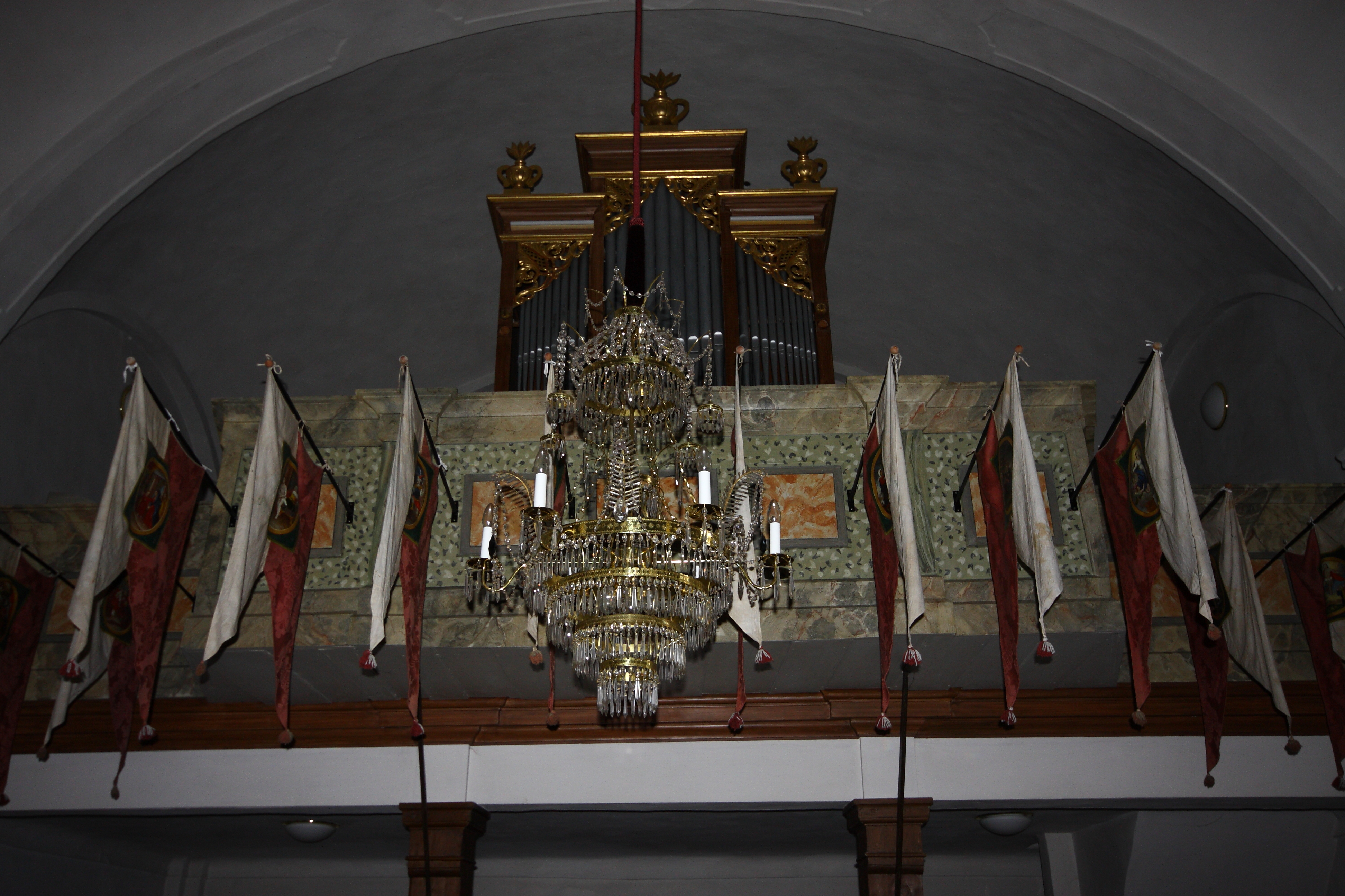 Saint Leonard Church (Donnersbachwald), Styria, Austria